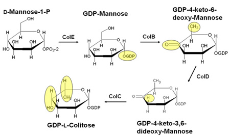 The GDP-L-colitose biosynthesis pathway. For clarity, groups modified by the previous enzymatic step are highlighted in yellow. Original text: Paul D. Cook made this file using ACD Labs free ChemSketch software and photoediting software.